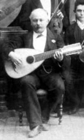 Giuseppe Branzoli posing with his mandolone at the Sala Palestrina of Palazzo Doria Pamphilj, Rome, Italy.